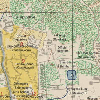 Gyeongmudae